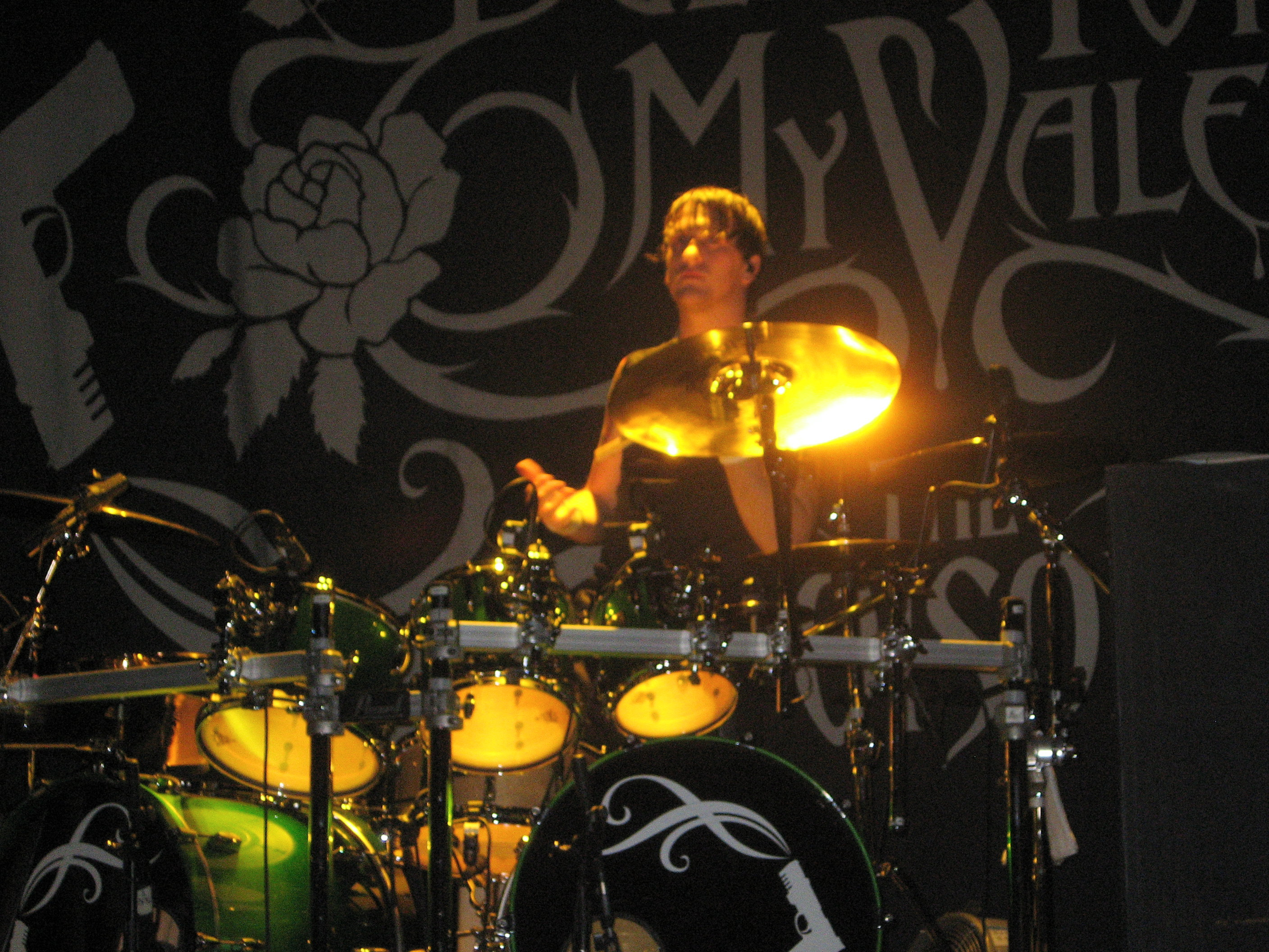 Bullet For My Valentine drummer Michael Thomas, live in Columbus